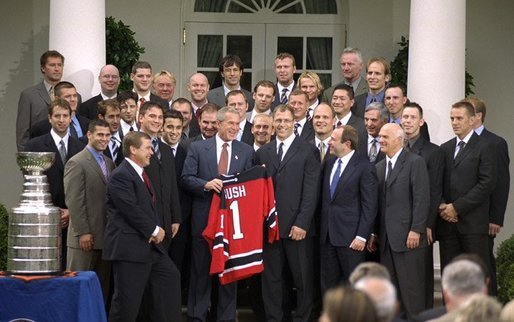 "President George W. Bush poses with the 2003 Stanley Cup Champion New Jersey Devils ice hockey team Monday afternoon, September 29, 2003, in the Rose Garden."